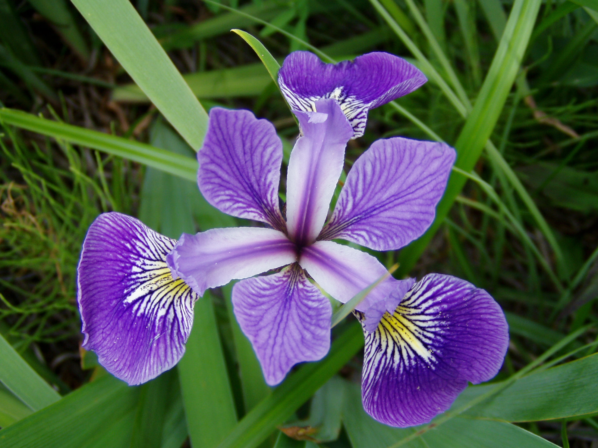 Blue flag flower close-up (Iris versicolor). Photo taken by Danielle Langlois in July 2005 at the Forillon National Park of Canada, Quebec, Canada.